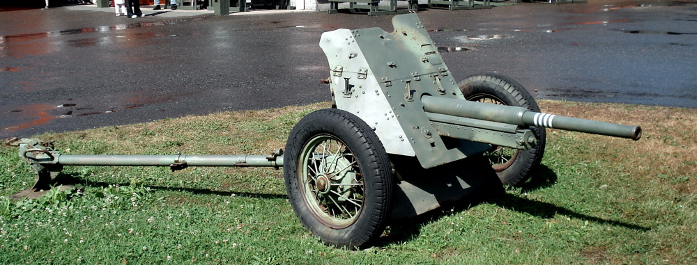 Soviet 45 mm anti-tank gun M1937, displayed in Finnish Tank Museum (Panssarimuseo) in Parola. Photo taken on July 14, 2006.